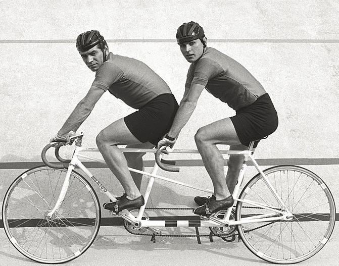 The Italian tandem team at the Olympic Games: Luigi Borghetti, on the left, and Walter Gorini, on the right. The two Italian cyclists shall finish fourth and won't win any medal. Mexico City (Mexico), October 1968.